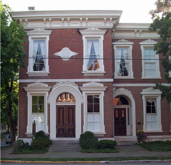 This building in Russellville, Kentucky was once a bank robbed by the Jesse James gang